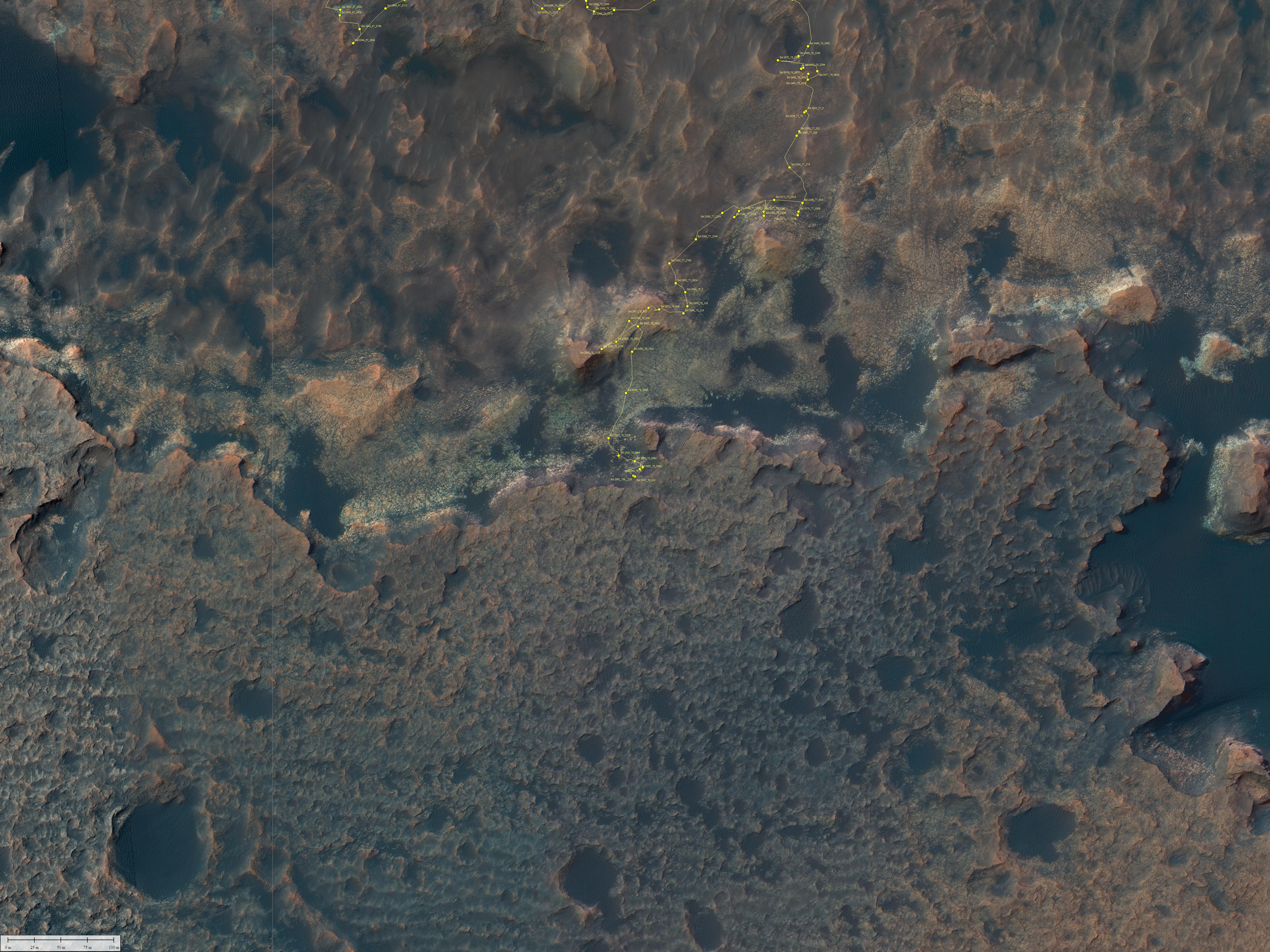 Curiosity Rover's Location for Sol 2692 March 03, 2020 This map shows the route driven by NASA's Mars rover Curiosity through the 2692 Martian day, or sol, of the rover's mission on Mars (March 3, 2020). Numbering of the dots along the line indicate the sol number of each drive. North is up. From Sol 2691 to Sol 2692, Curiosity had driven a straight line distance of about 5.68 feet (1.73 meters). Since touching down in Bradbury Landing in August 2012, Curiosity has driven 13.62 miles (21.92 kilometers). The base image from the map is from the High Resolution Imaging Science Experiment Camera (HiRISE) in NASA's Mars Reconnaissance Orbiter.